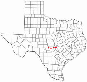 Adapted from Wikipedia's TX county maps